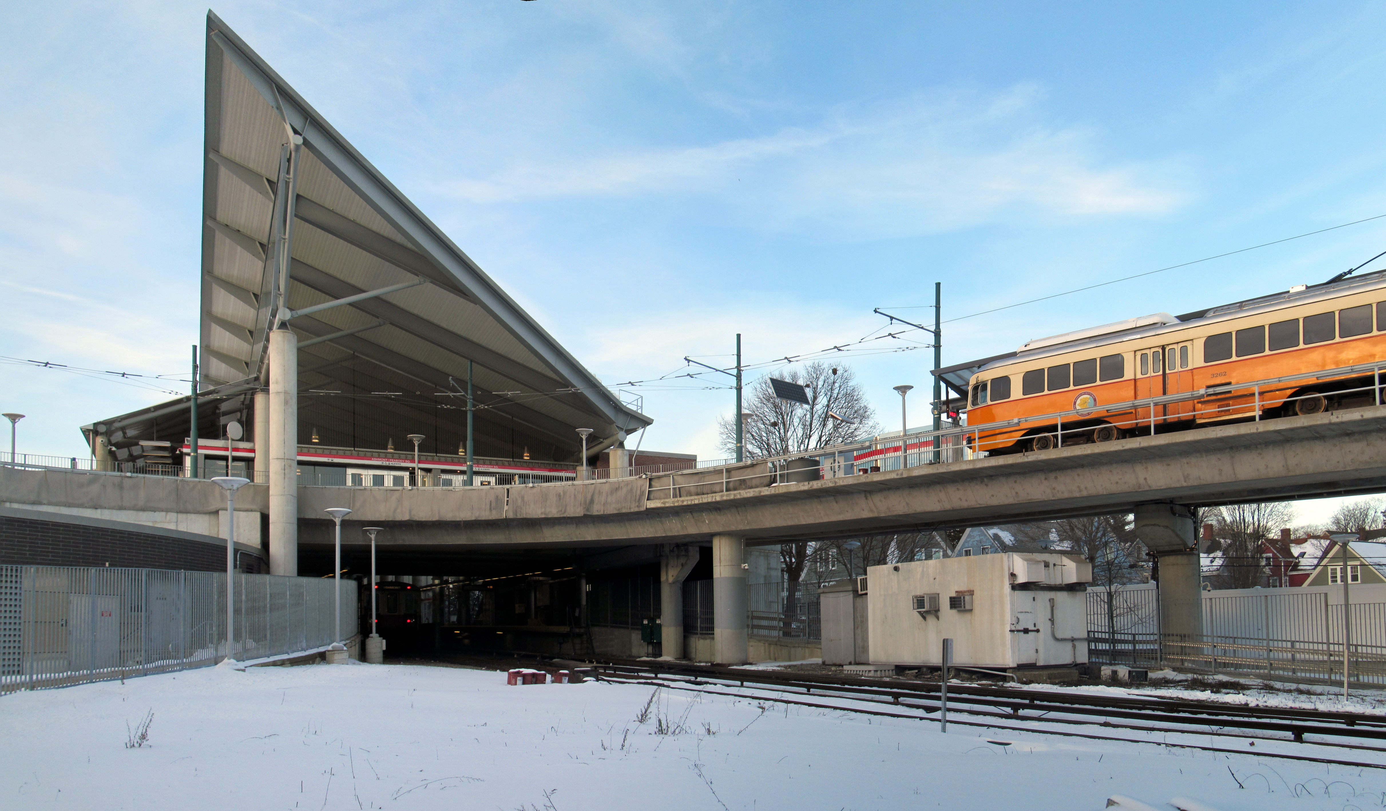 South end of Ashmont station in January 2016